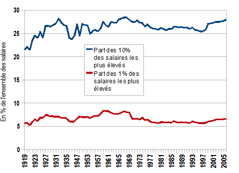 Top wage decile and top wage centile share in the salaries in France (1919-2006). Data from Thomas Piketty ("Les hauts revenus en France", 2001 avalable here (Tables D-7 and D-16) and Camille Landais (avalable here)